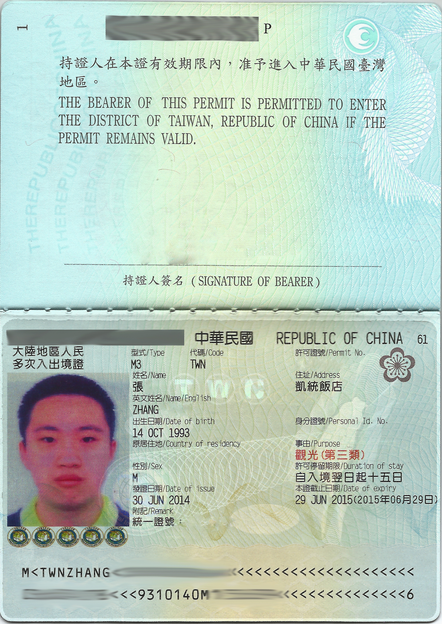 Data page of multiple use Exit & Entry Permit (Republic of China) for China Mainland citizens.